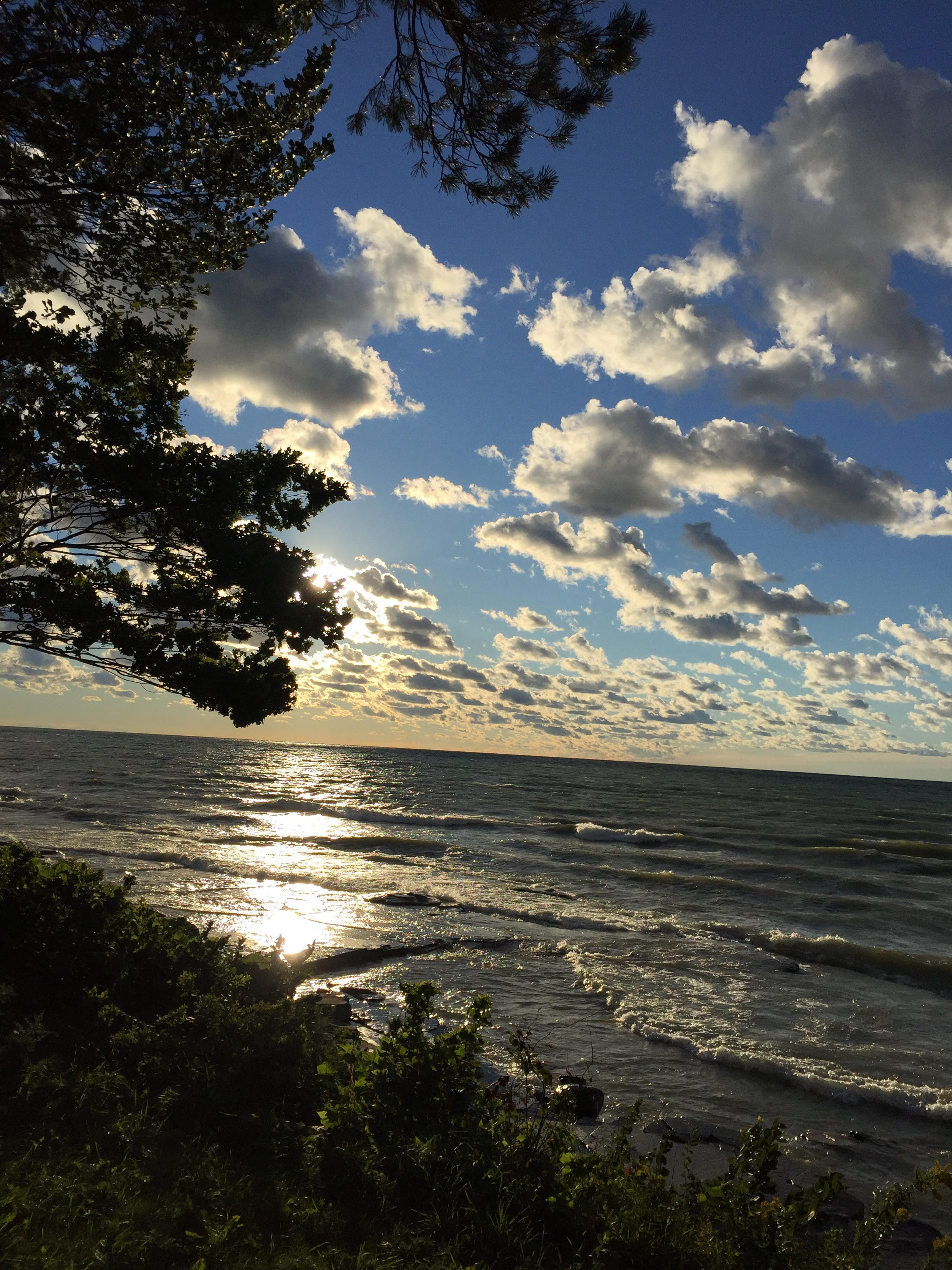 Evening at SUNY Oswego overlooking Lake Ontario.